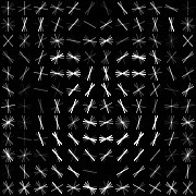 This is the visualization of a learned HOG (Histogram of oriented gradients) detector, a trained face detector based on the small faces dataset in the examples-faces directory of Dlib. It was created with the Dlib example program fhog_object_detector_ex.cpp.